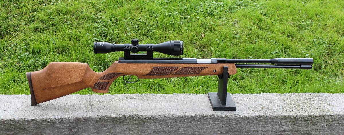 Underlever spring piston air rifle.